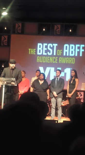 Filmmaker Ben Bowman speaks after accepting the VH-1 Audience Award for "Knucklehead" at the Awards Ceremony of 2015 American Black Film Festival held at the New York Hilton in Midtown Manhattan.